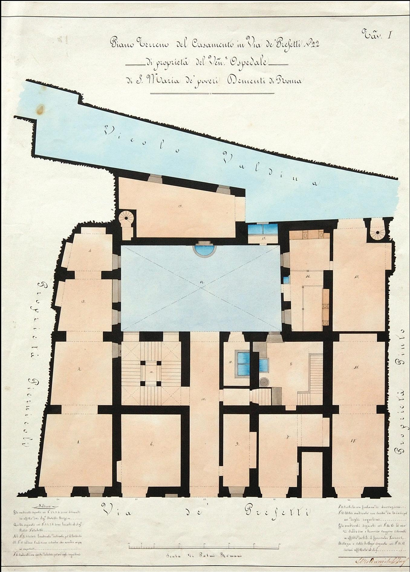 Plan of Palazzo Incontro (Rome), by Melerini.